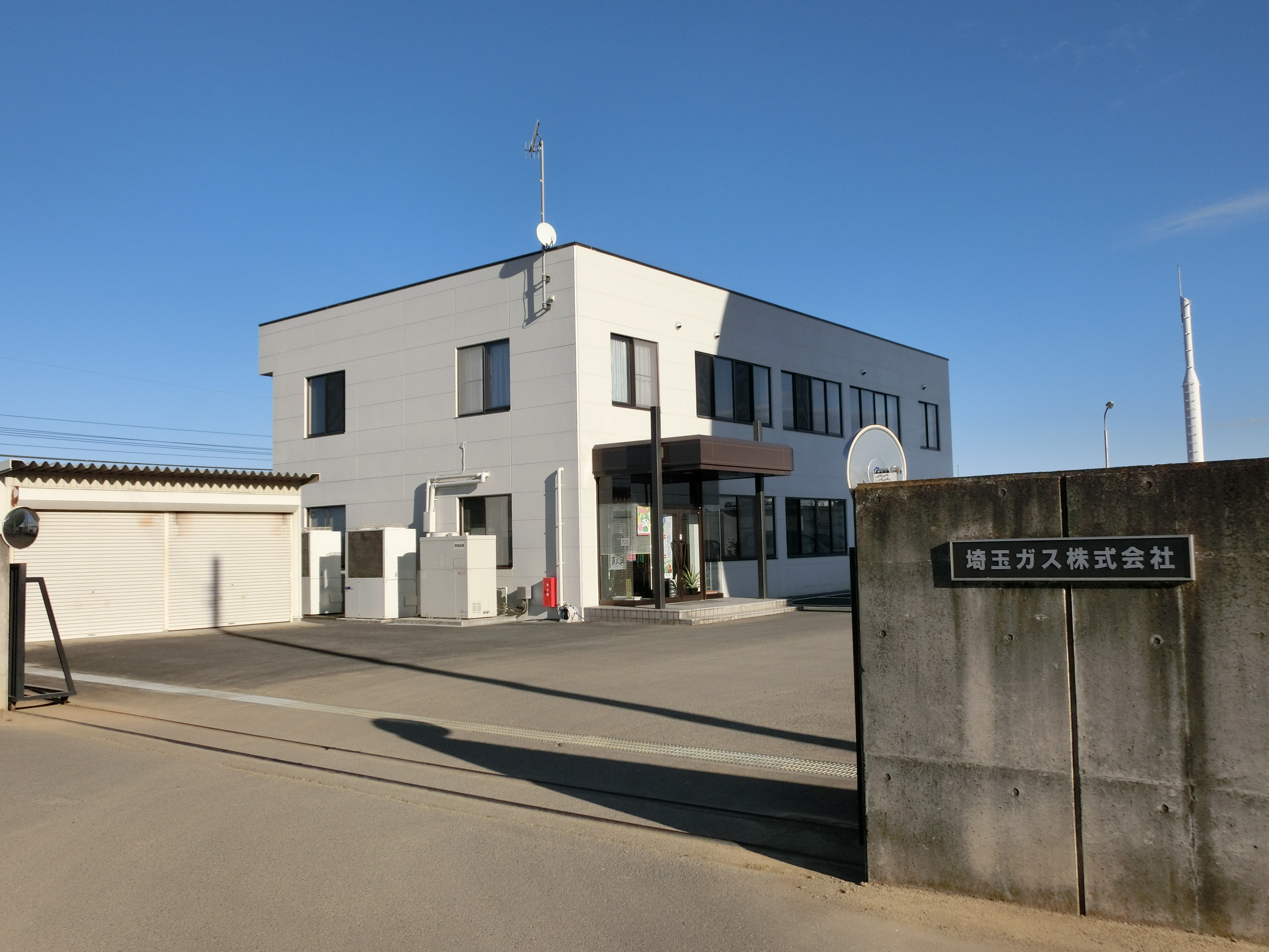 Saitama Gas head office in Fukaya, Saitama